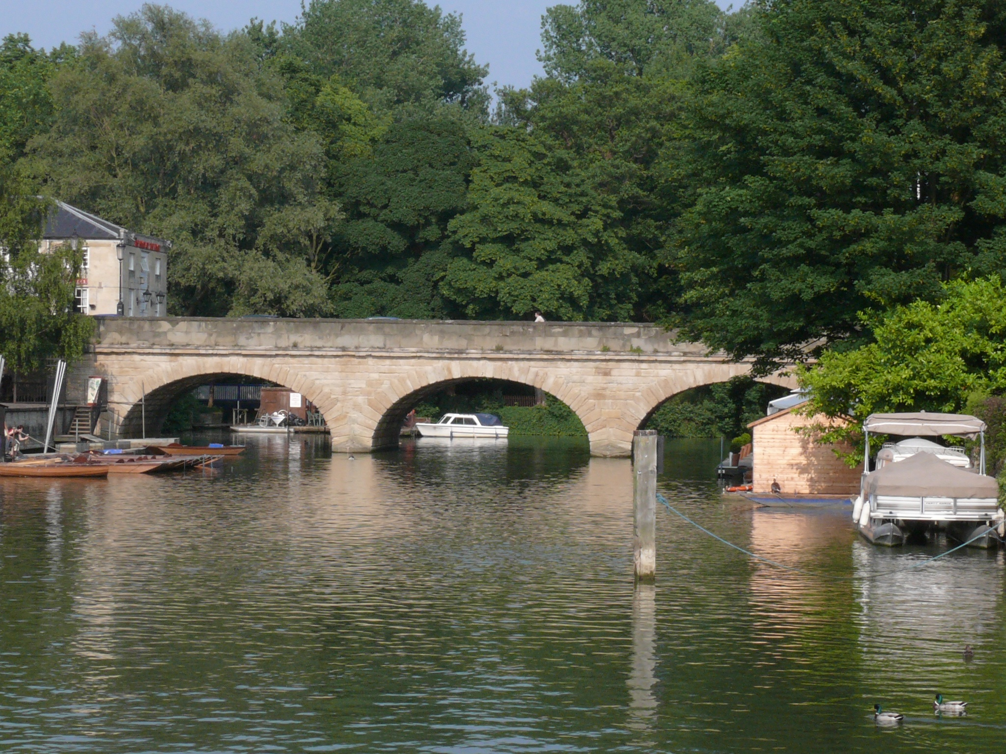 Folly Bridge in Oxford, seen from the west.